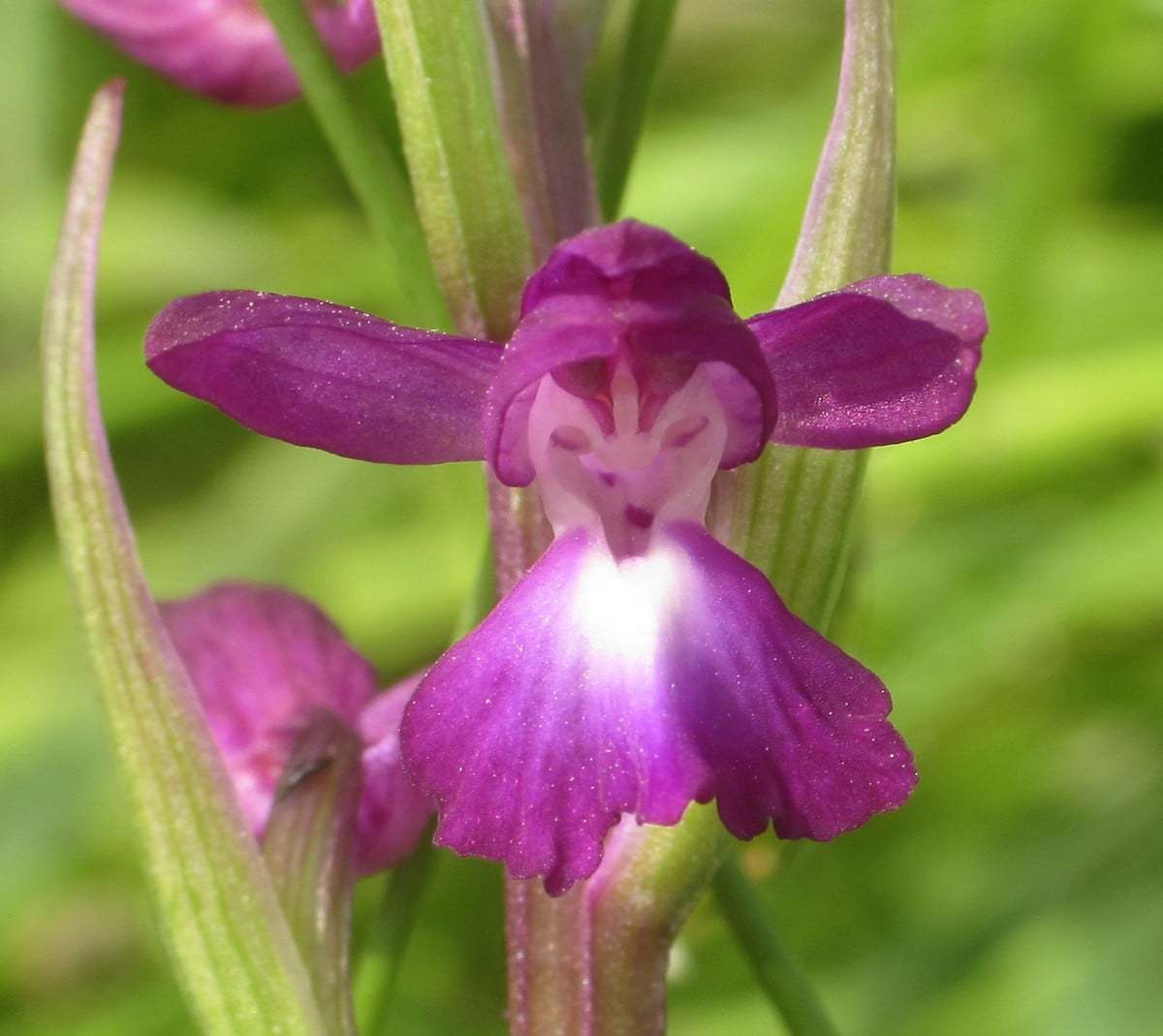 Anacamptis laxiflora labellum